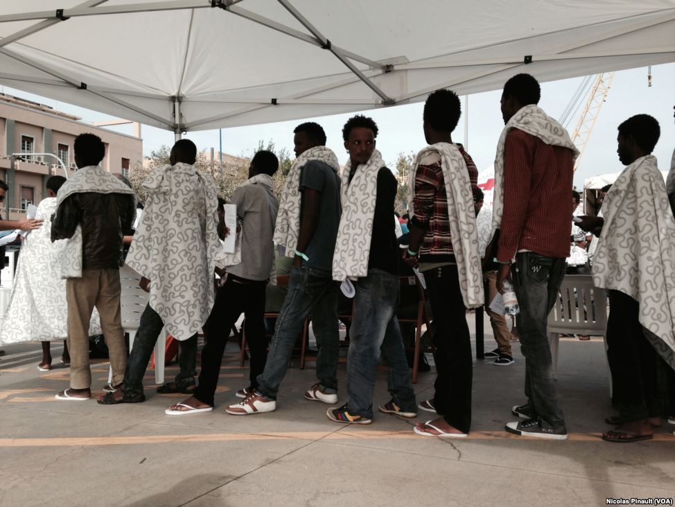 Eritrean migrants arrive in Messina.